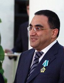 Armen Darbinyan